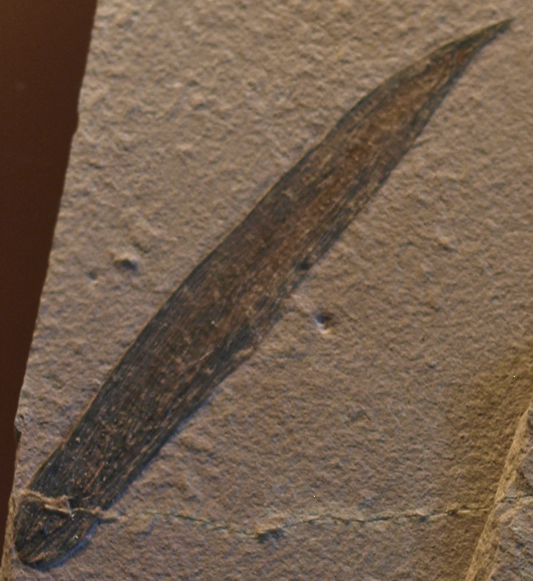 Detail of the example fossil of Halichondrites elissa on display at the Naturhistorisches Museum, Vienna.